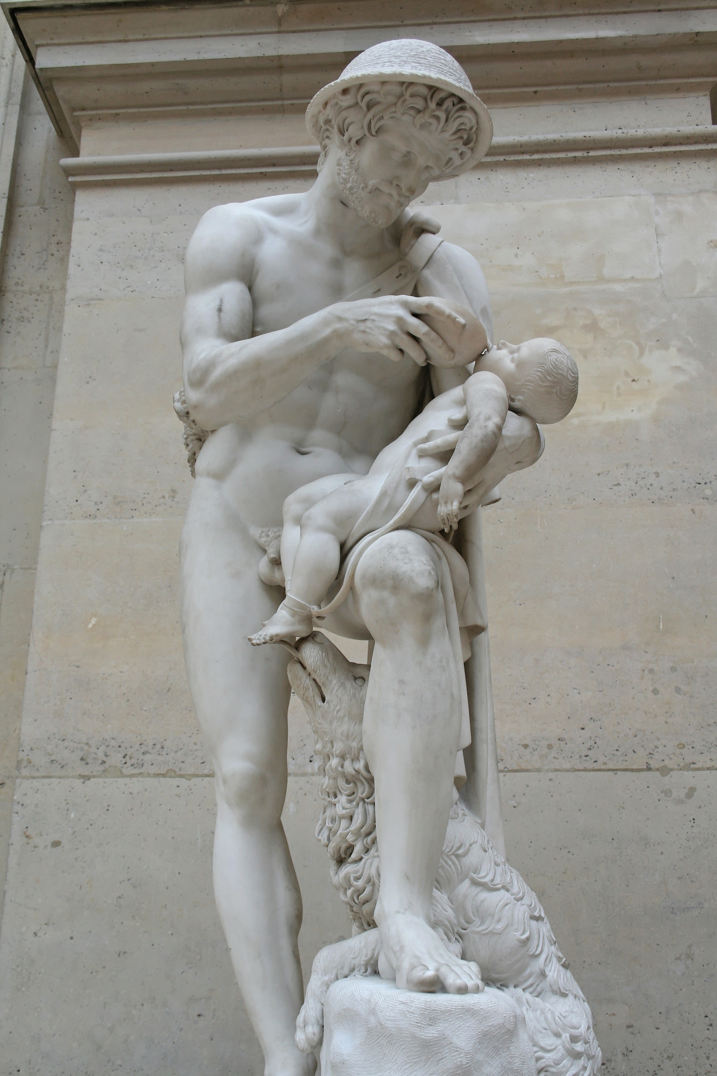 A plaster model was exhibited at the Salon of 1801. Completed by Pierre Cartellier (1757–1831) and Louis-Marie Dupaty (1771–1825) after Chaudet's death.